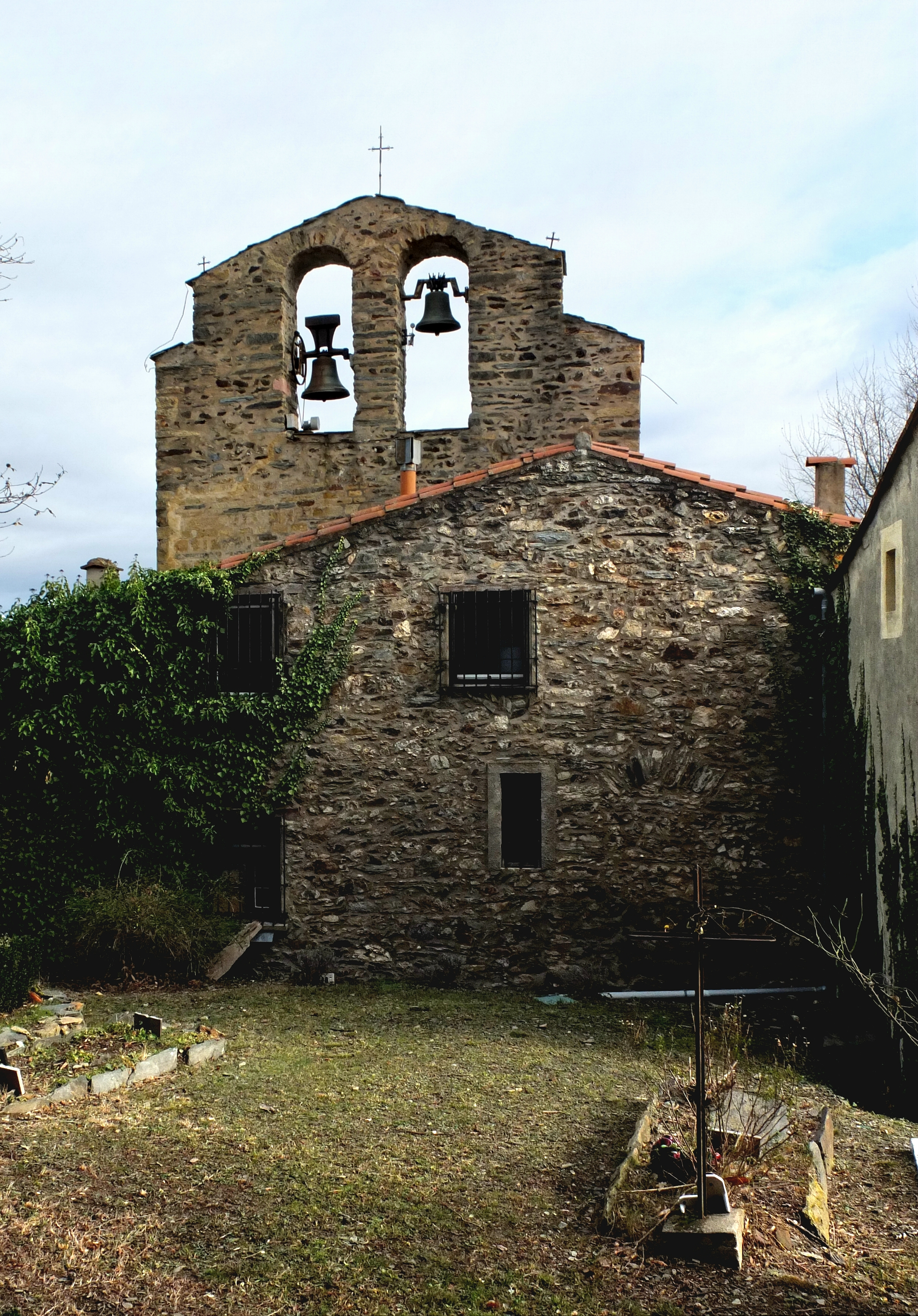 Romanesque "Chapelle de la Trinité de Prunet-et-Belpuig", Roussillon, France (West view).